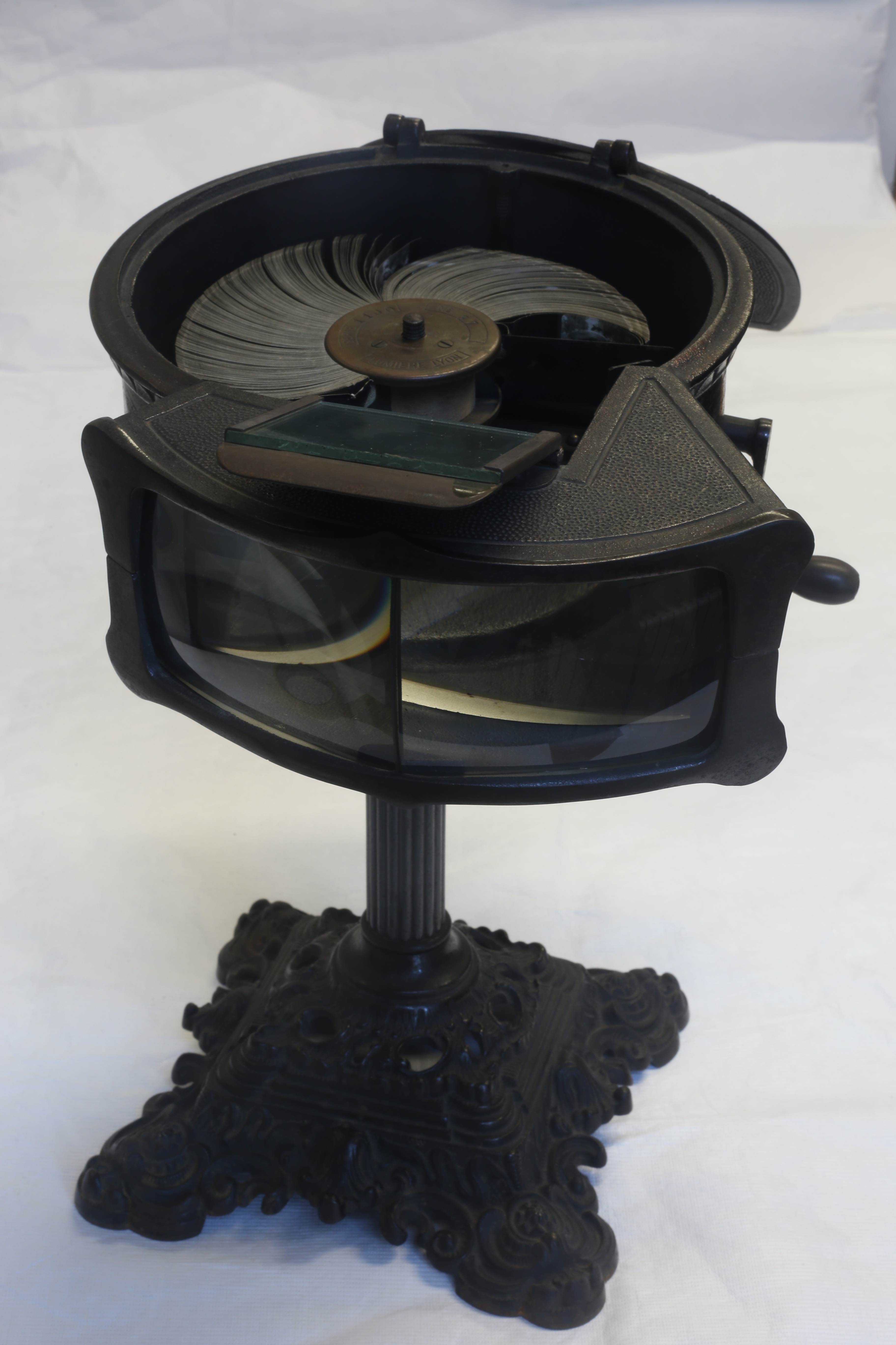 Kinora, British Mutoscope and Biograph Company (GB, 1905) This is a file created at the museum: FOMU Photo Museum in Antwerp